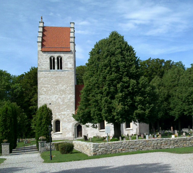 Church of Västerhejde, Gotland